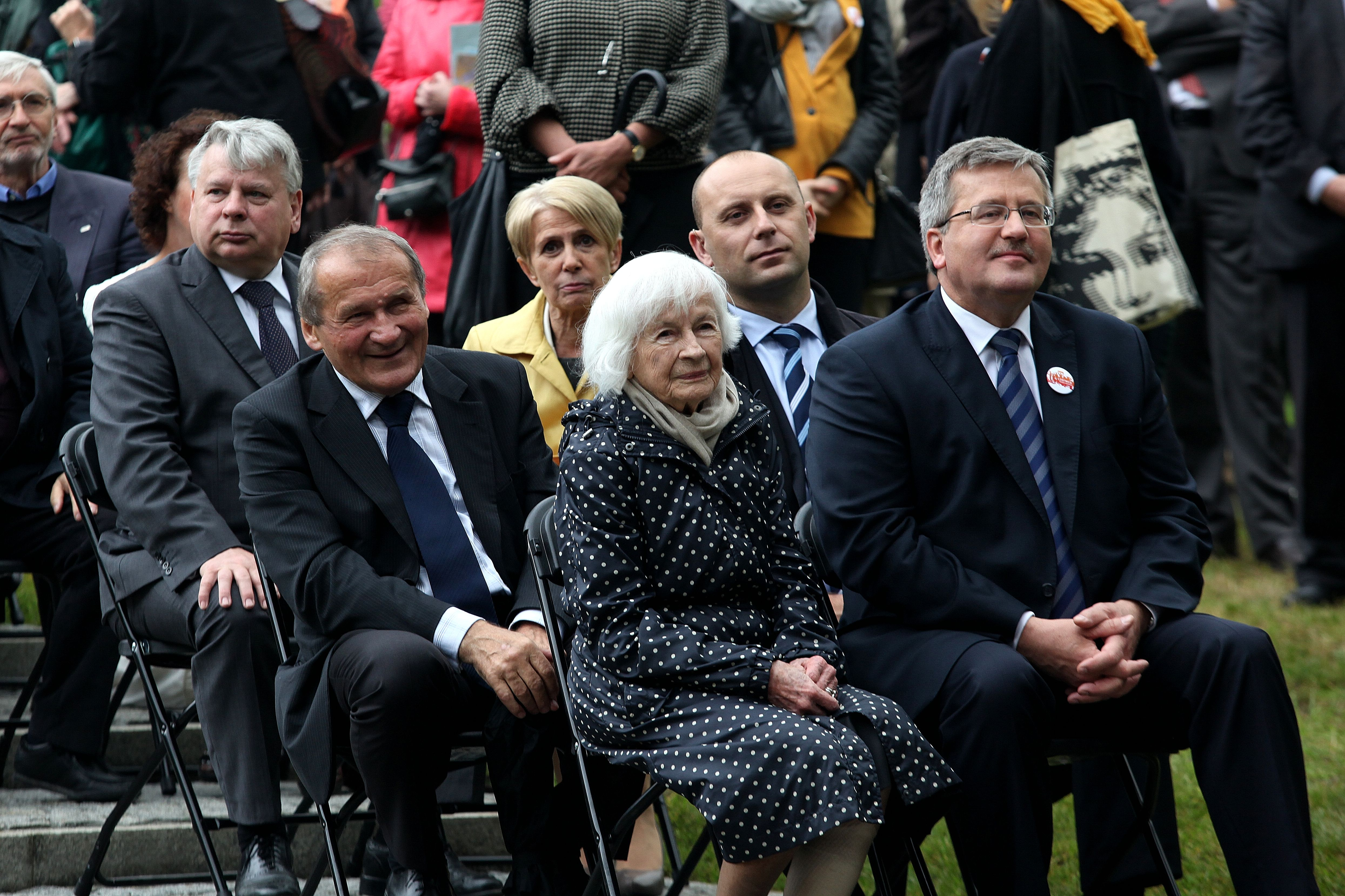 Bronisław Komorowski, Danuta Szaflarska, Henryk Wujec, Bogdan Borusewicz and Iwona Śledzińska-Katarasińska during the unveiling ceremony of the monument to Halina Mikołajska in Warsaw